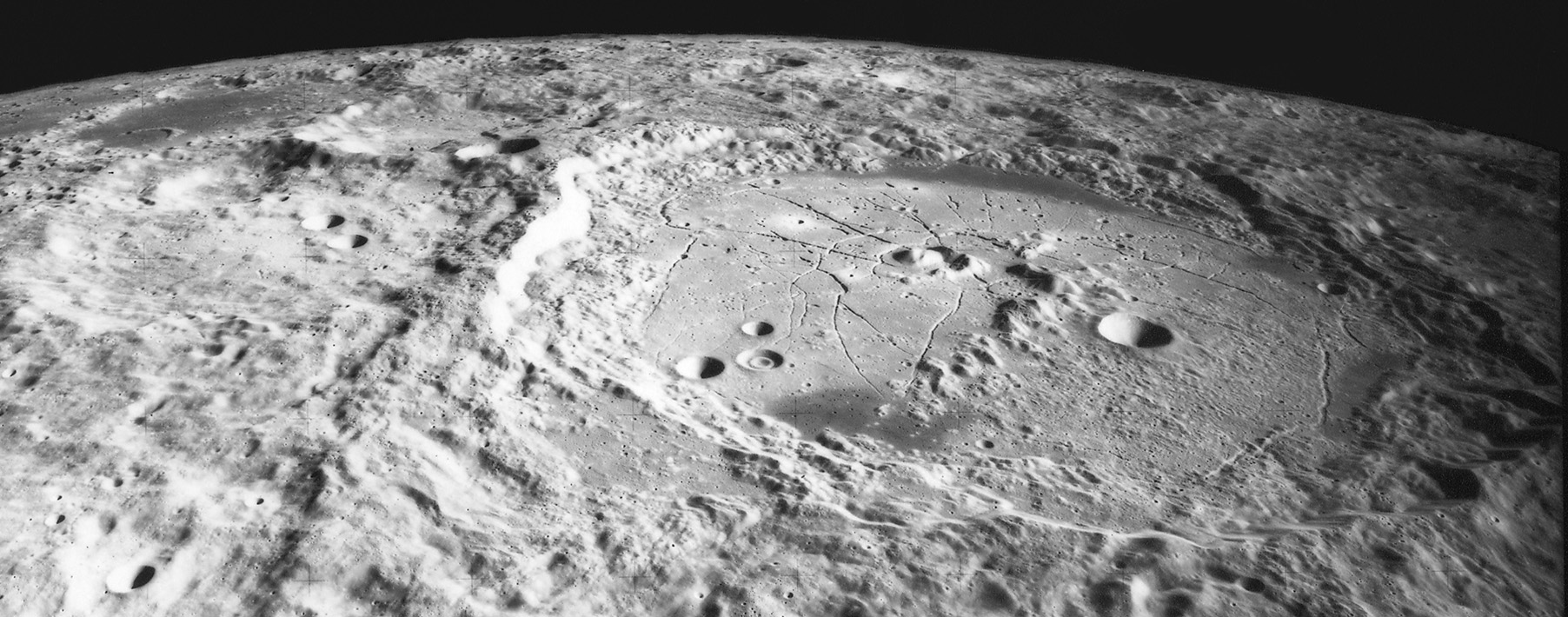 Craters Humboldt (right) and Barnard (left). Image by Apollo 15 (AS15-M-2510).